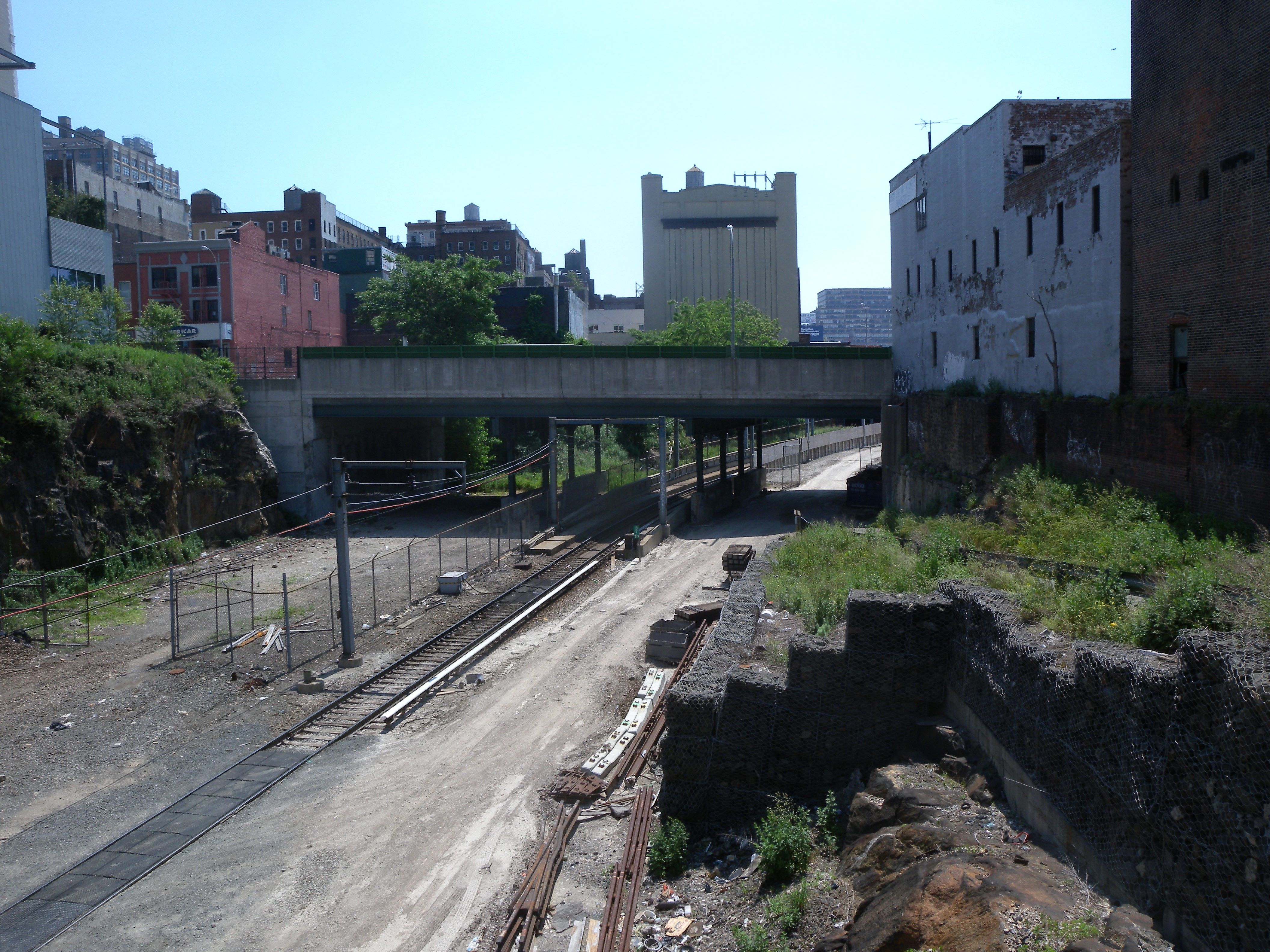 Looking south from 38th Street at a single track portion of the West Side Line on a sunny day. See File:West Side NYCRR 37 St 1988.agr.jpg for a view of same area in 1988.